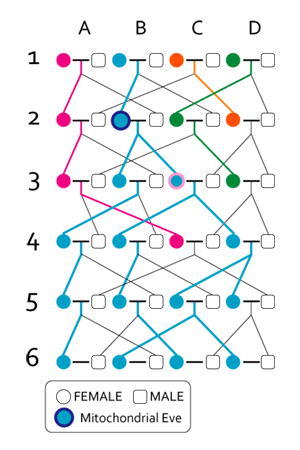 Explanation chart of mitochondria eve(small size)